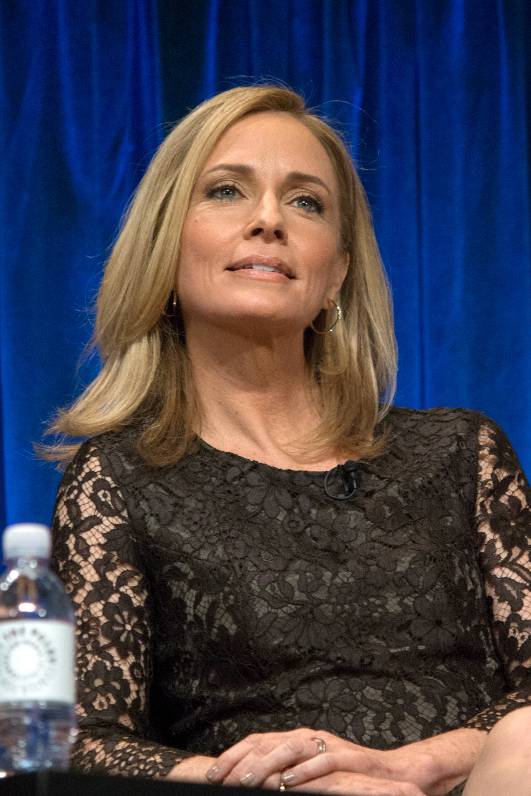 Susanna Thompson at PaleyFest 2013 presentation for the TV Arrow